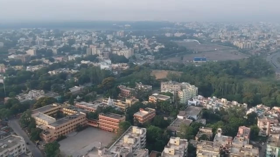 Jamshedpur Skyline 2